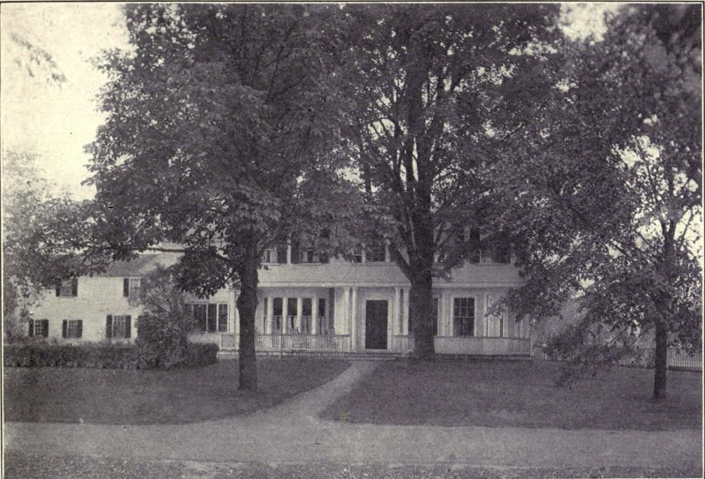 Newman House in Andover, Massachusetts. It is currently located at 210 South Main Street.